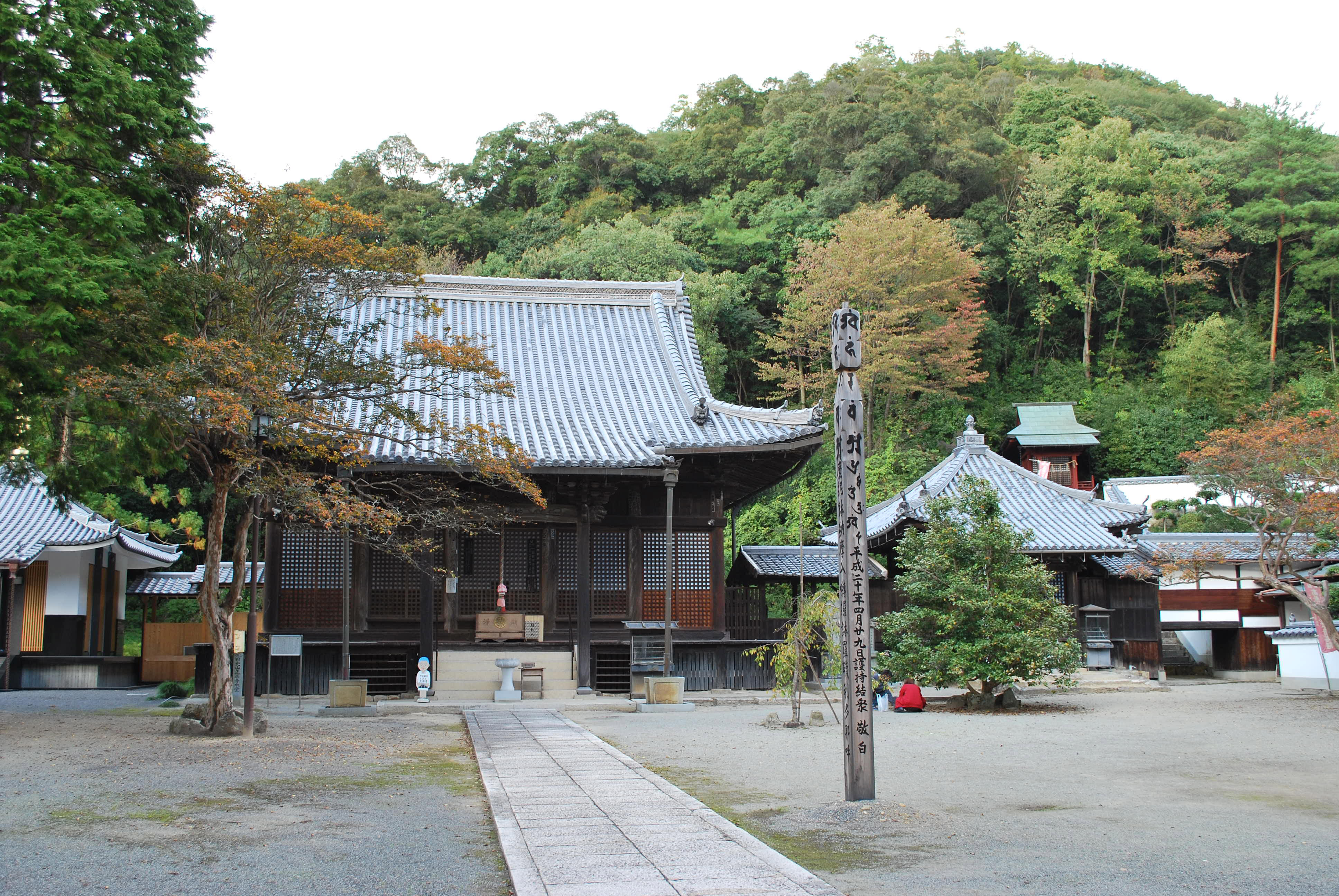 Shōraku-ji temple